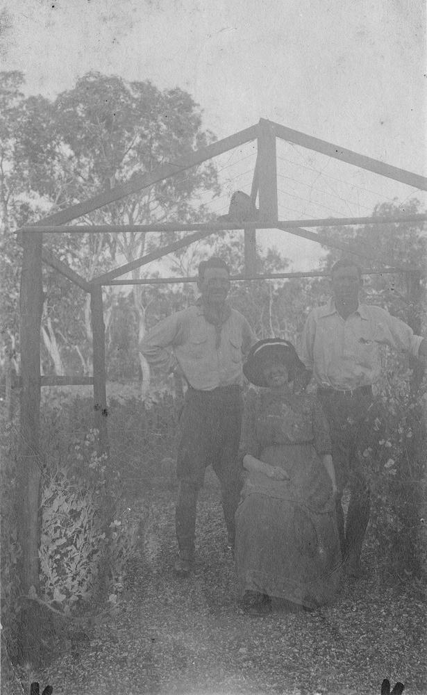 Queensland Prickly Pear Board's research station, Dulacca, ca 1913. The seated woman is possibly Dr Jean White, the officer in charge. (Information supplied with photograph).